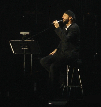 Image depicting singer Juan Luis Guerra. Taken by user:f3rn4nd0 for wikipedia and sibling projects only.